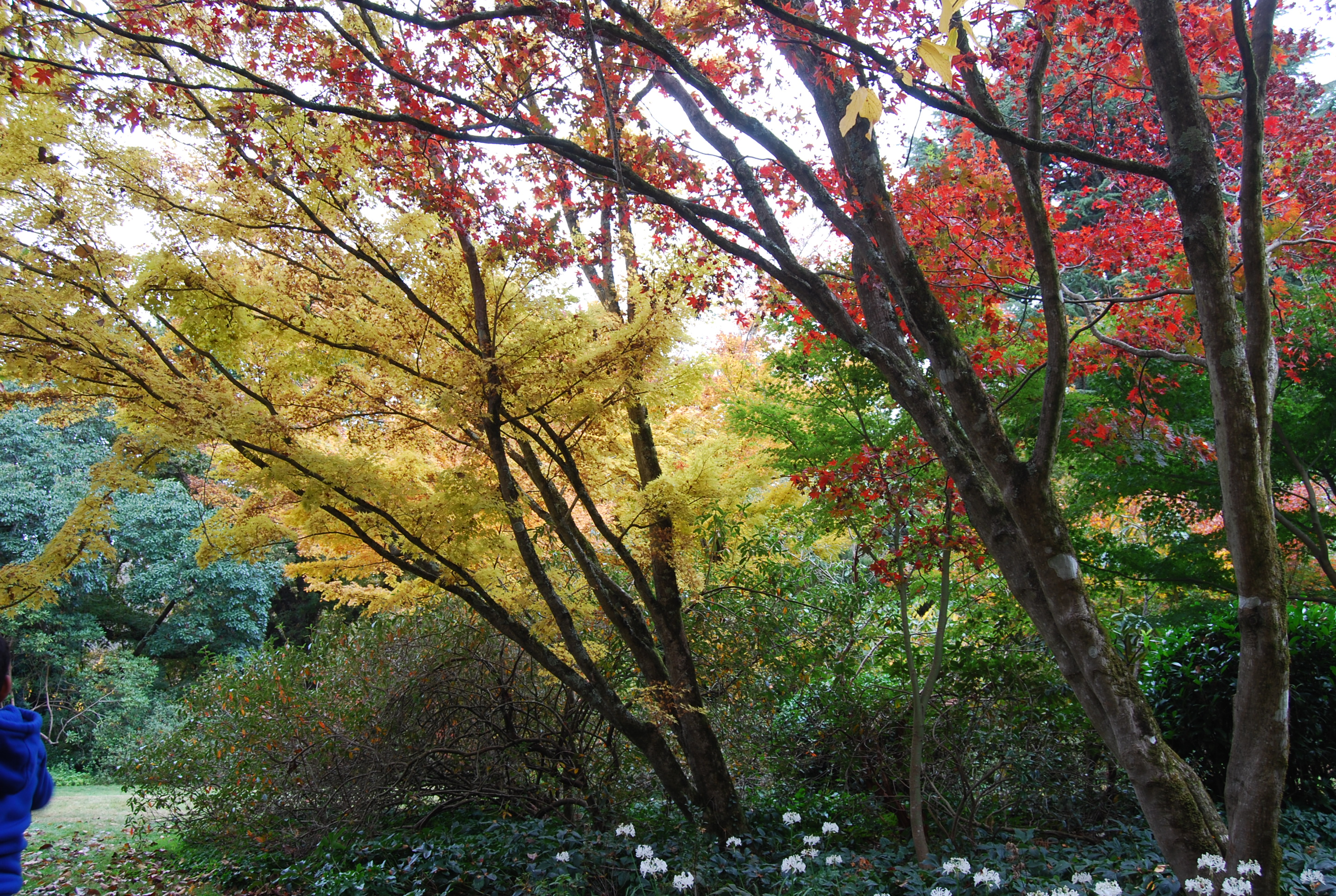 Nature colours in Autumn.